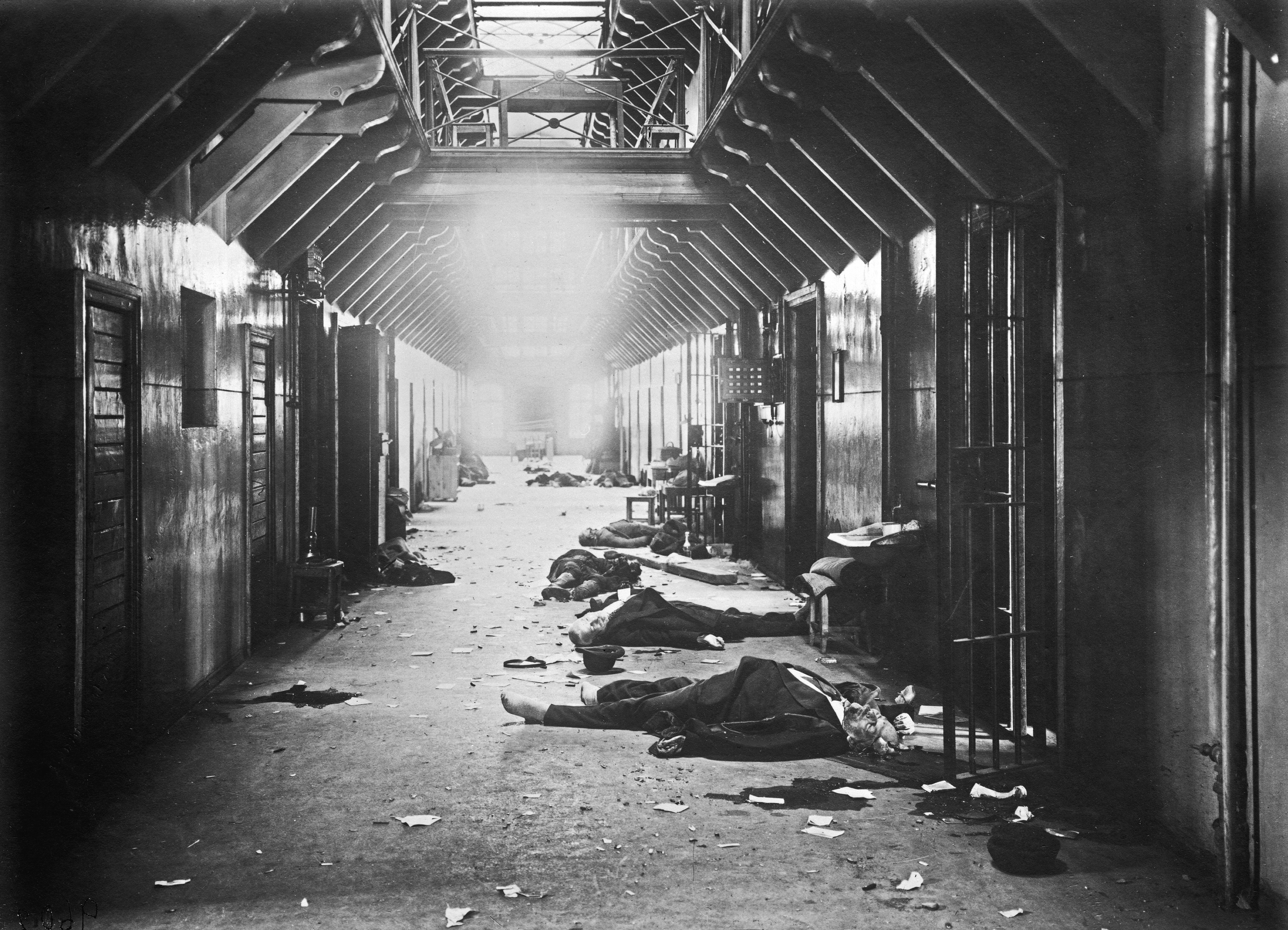 Viipuri (modern Vyborg) county jail, an irregular Red Guard troop killed 30 White Guard prisoners with handguns and grenades in the corridors and cells of the jail during the surrender of Viipuri